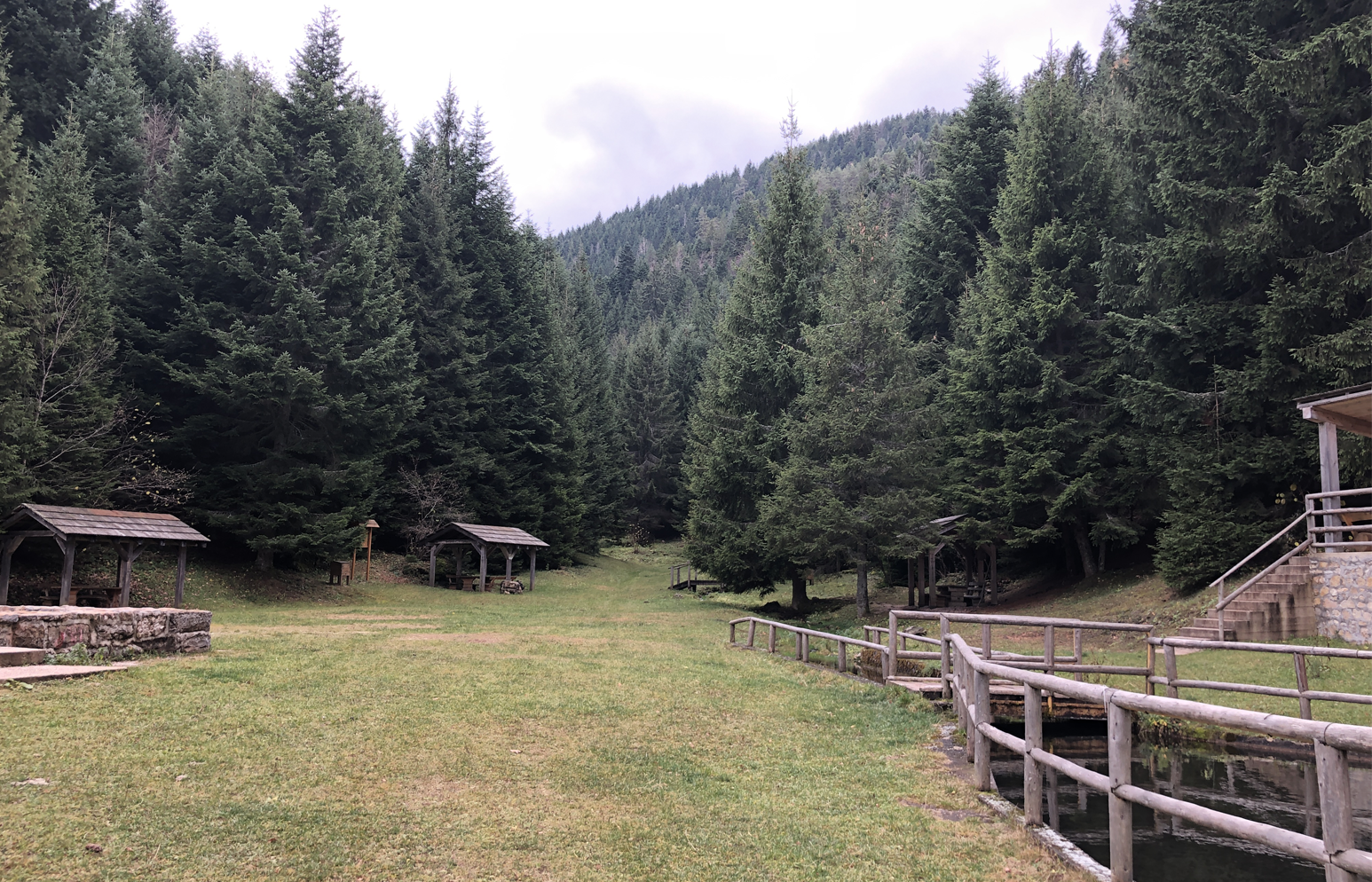 In this area there used to be an old mountain cabin that was torn down during the war 1990s.